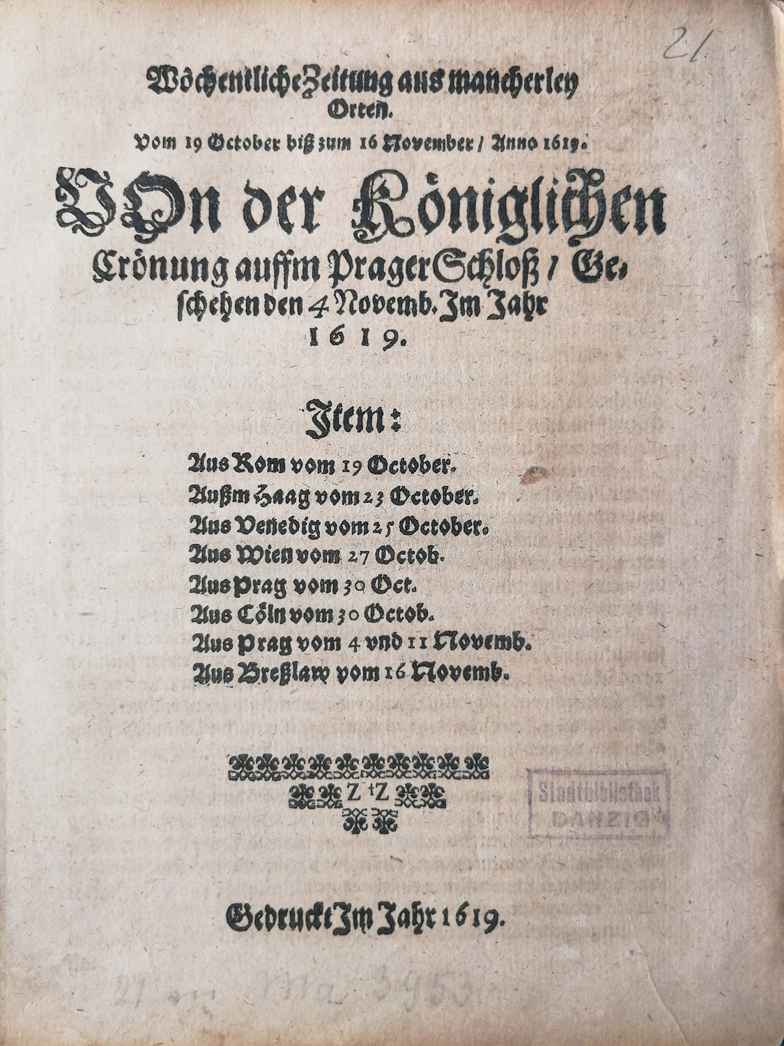 Title page of the magazine "Wöchentliche Zeitung aus mancherley Orten" ("Weekly news from many places"). News from Rome, The Hague, Venice, Vienna, Prague, Cologne and Wroclaw. 1619. The original item in possession of: Biblioteka Gdańska PAN